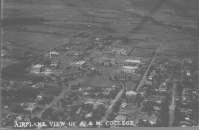 "This aerial view shows the OAMC campus in 1919. The center of campus is surrounded by Morrill Hall, the Central Building, the Engineering Building (now Gunderson Hall), and the Auditorium. To the north of Morrill is the Armory-Gymnasium (now the Architecture Building), and to the west of the Engineering Building is the Power Plant."